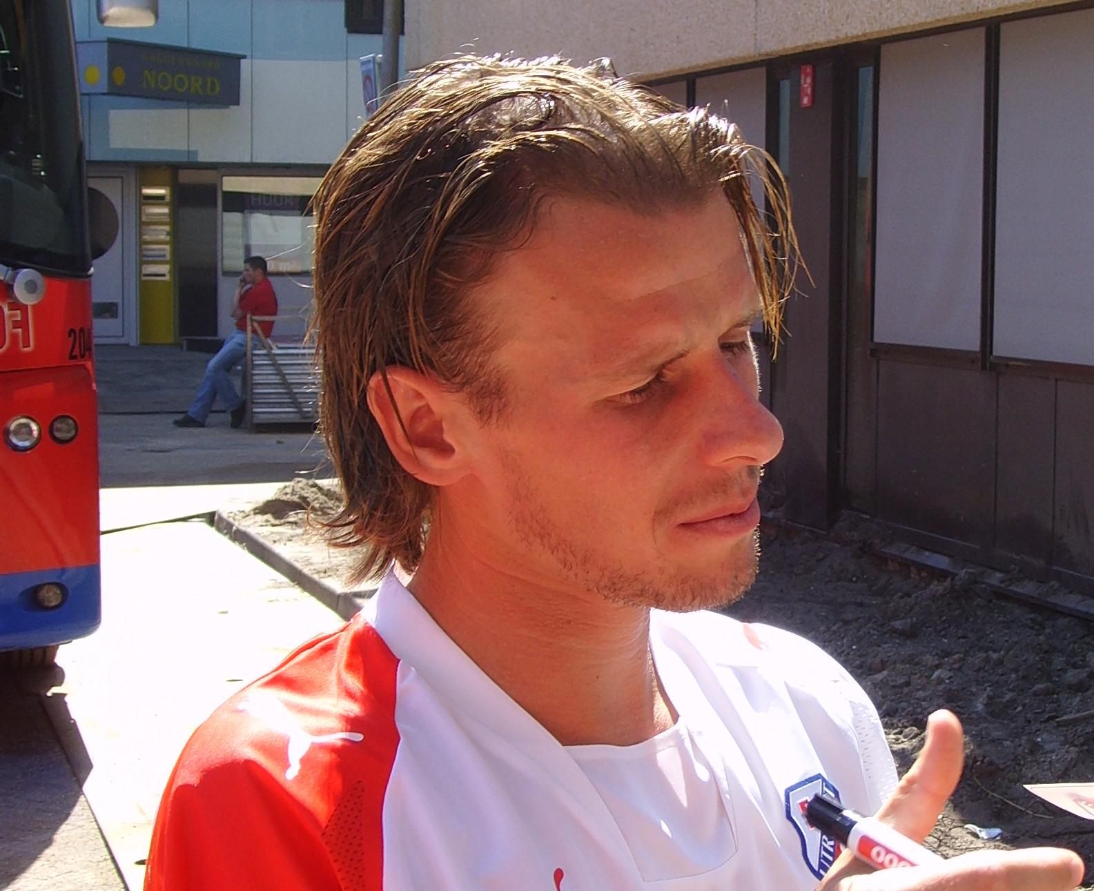 Tom Caluwé, Belgian footballer